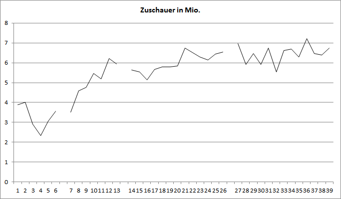 diagram of audience ratings for German TV series “Mord mit Aussicht”